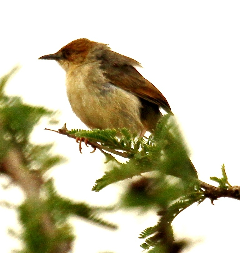 Singing Cisticola - Nairobi National Park